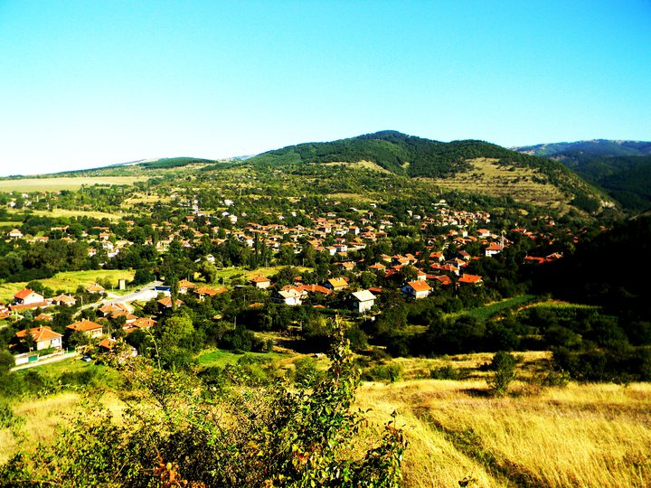 Eleshnitsa